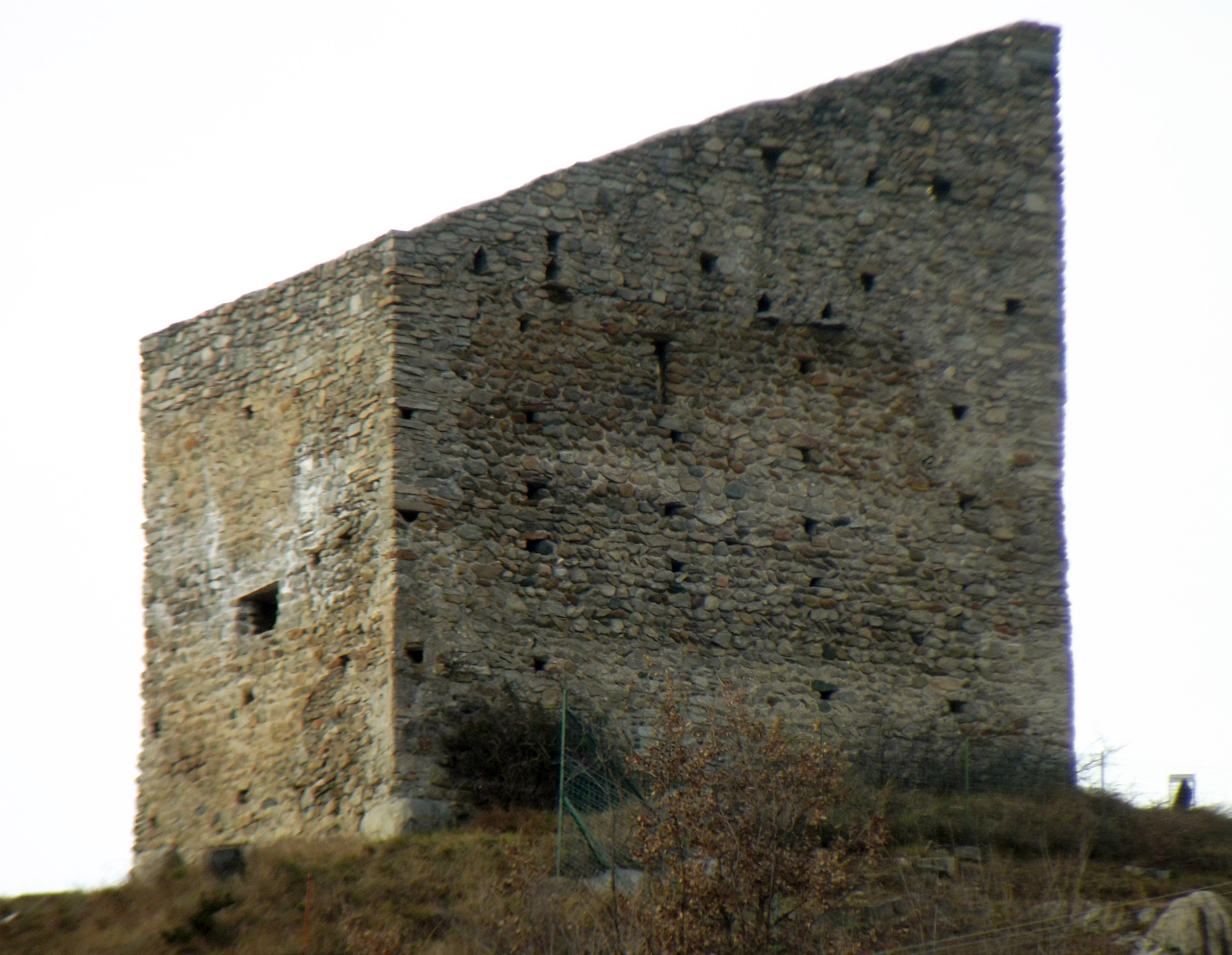 Borgone di Susa (TO, Italy): middle ages tower